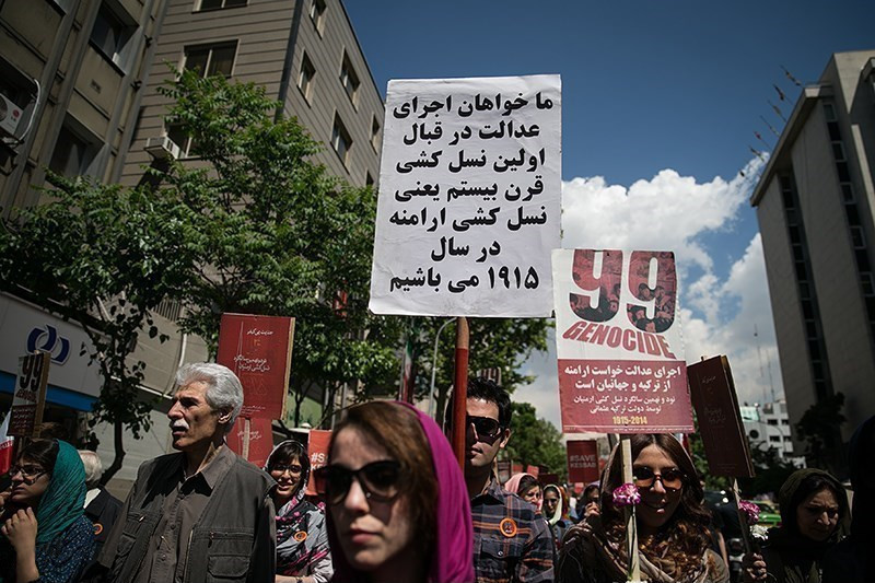 Armenian Genocide Remembrance Day - Tehran 2014